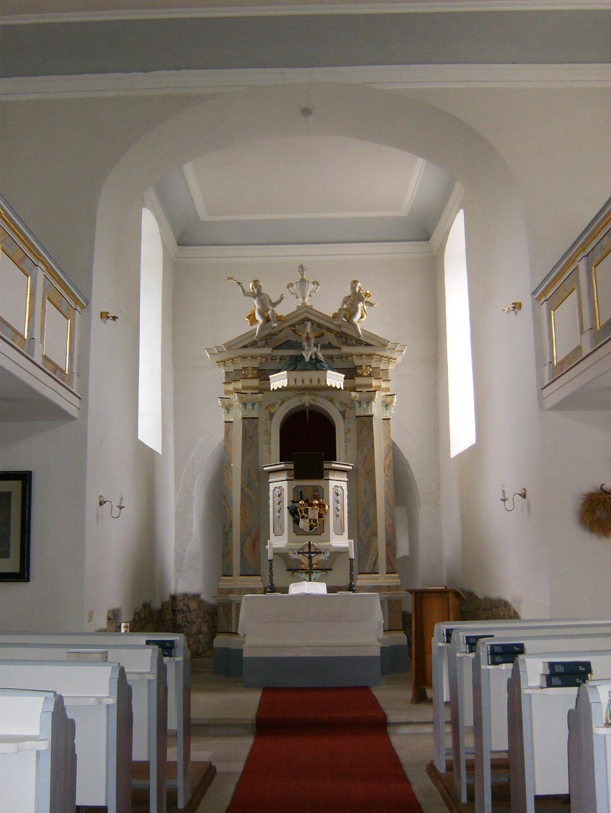 Gera Trebnitz, church inside with baroque chancel altar.